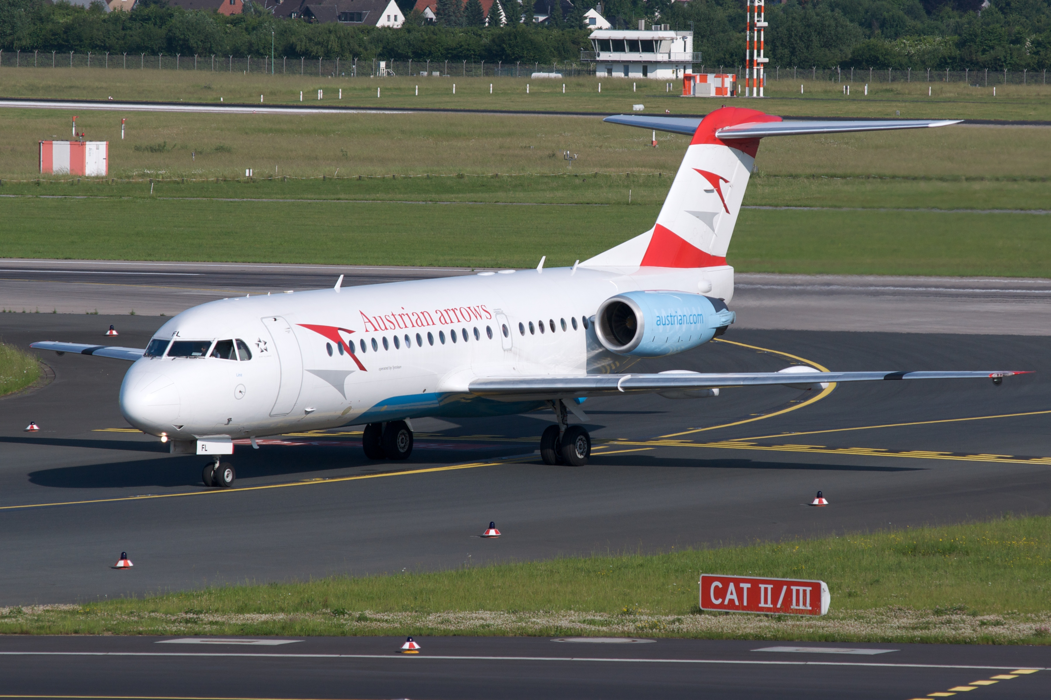 Austrian Arrows F.70 at Düsseldorf Airport